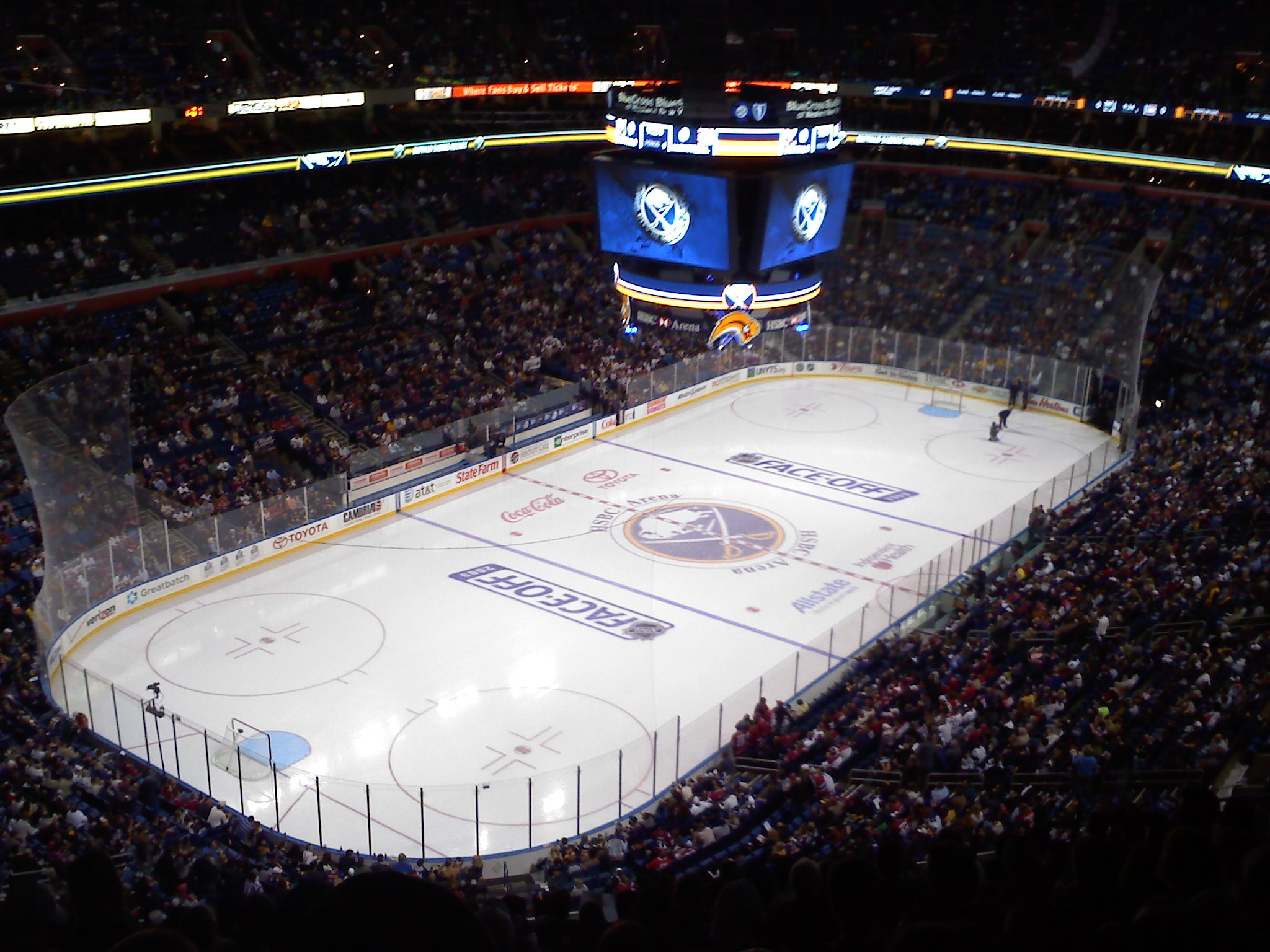 HSBC Arena at a Sabres Game Section 324